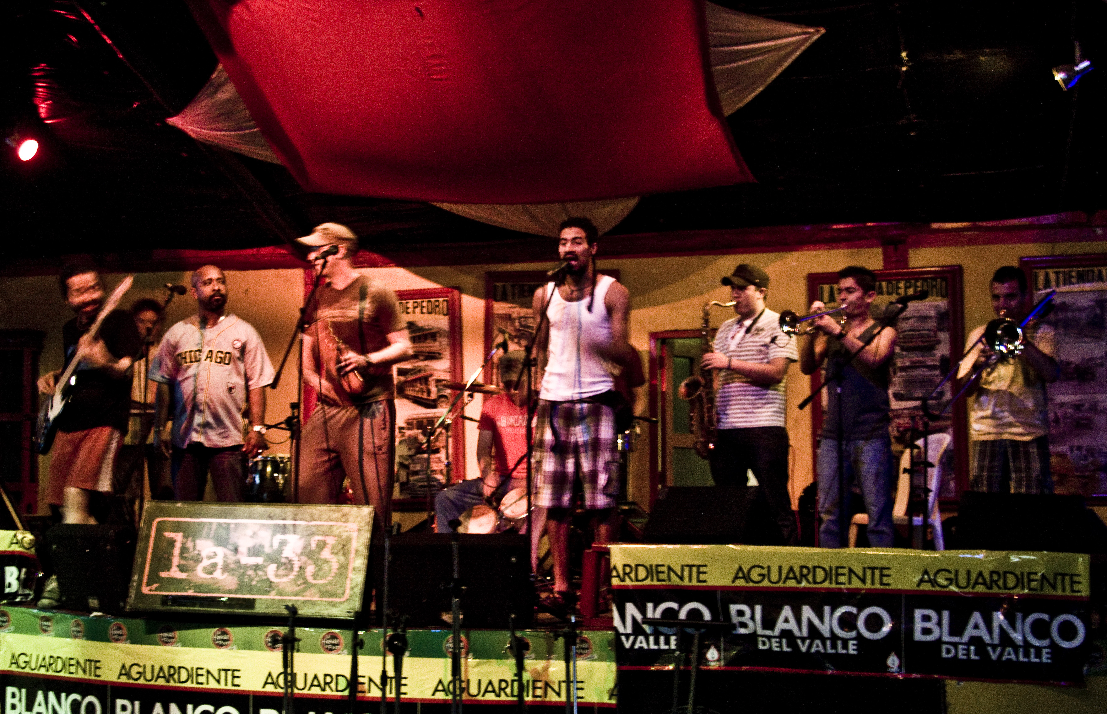 La-33: a brief story of a tasty idea Strange but true: one of the most extroverted and happiest salsa bands in the World. La-33 was born in the traditional borough of Teusaquillo in Bogotá, Colombia. Their headquarters are located on the 33rd street, where San Juan’s Convent was located. Naturally, the prayers were replaced with a constant turmoil and the weak 'Hallelujahs' gave way to a new sound beat: the Salsa. La-33 is a musical idea developed by the brothers Sergio and Santiago Mejía, whom in the year 2002 began to shape it in what we know today: a salsa style inspired by the typical New Yorker Salsa band line up including piano, bass, conga, timbals, bongos, saxophone, trumpet, trombones and three lead singers. Their sound owes its quality to Salsa Masters such as Larry Harlow, but also echoes can be heard from Charlie Palmieri and Lucho Bermúdez. Thanks to the musical excellence and their powerful live performances, La-33 has proudly come to share the stage with figures like Henry Fiol, Willie Colon, Ismael Miranda, Cheo Feliciano, Chucho Valdes, Los Van Van, Sargento Garcia, Kinky and The Wailers, etc. La-33 is a registered trademark where the important thing is not the business but the music. Sergio Mejía - Director and Bass Guitar Santiago Mejía - Piano Guillermo Celiz - Vocals David Cantillo - Vocals Pablo Martinez - Vocals Cipriano Rojas - Congas Juan David Fernández - Timbals Diego Sánchez - Bongos Vladimir Romero - Trombone José Miguel Vega - Trombone Felipe Cárdenas - Saxophone Roland Nieto - Trumpet